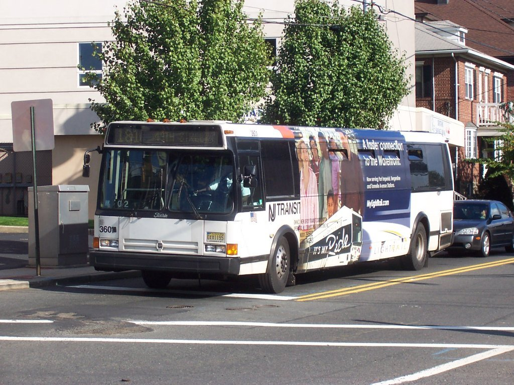 1989 New Jersey Transit Flxible Metro-B suburban 3601 in North Bergen, NJ, at Fairview and Anderson Avenues.